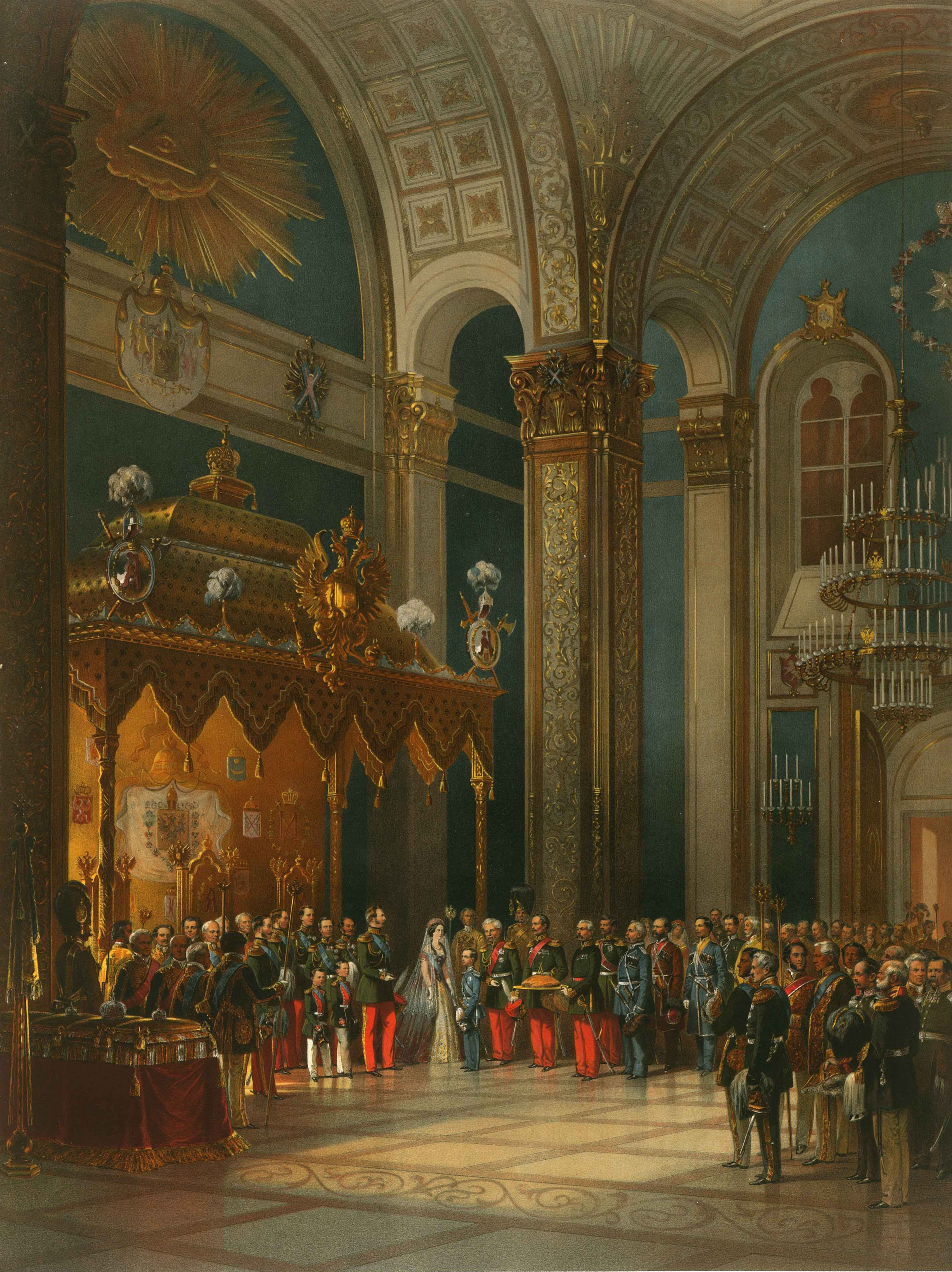 Homage of the Kosaks / Aufwartung und Huldigung der Kosaken-Offiziere im Thronsaal (Chromolithographie)